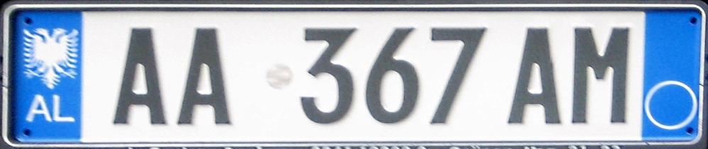 Albanian vehicle registration plate – new format valid since 2011